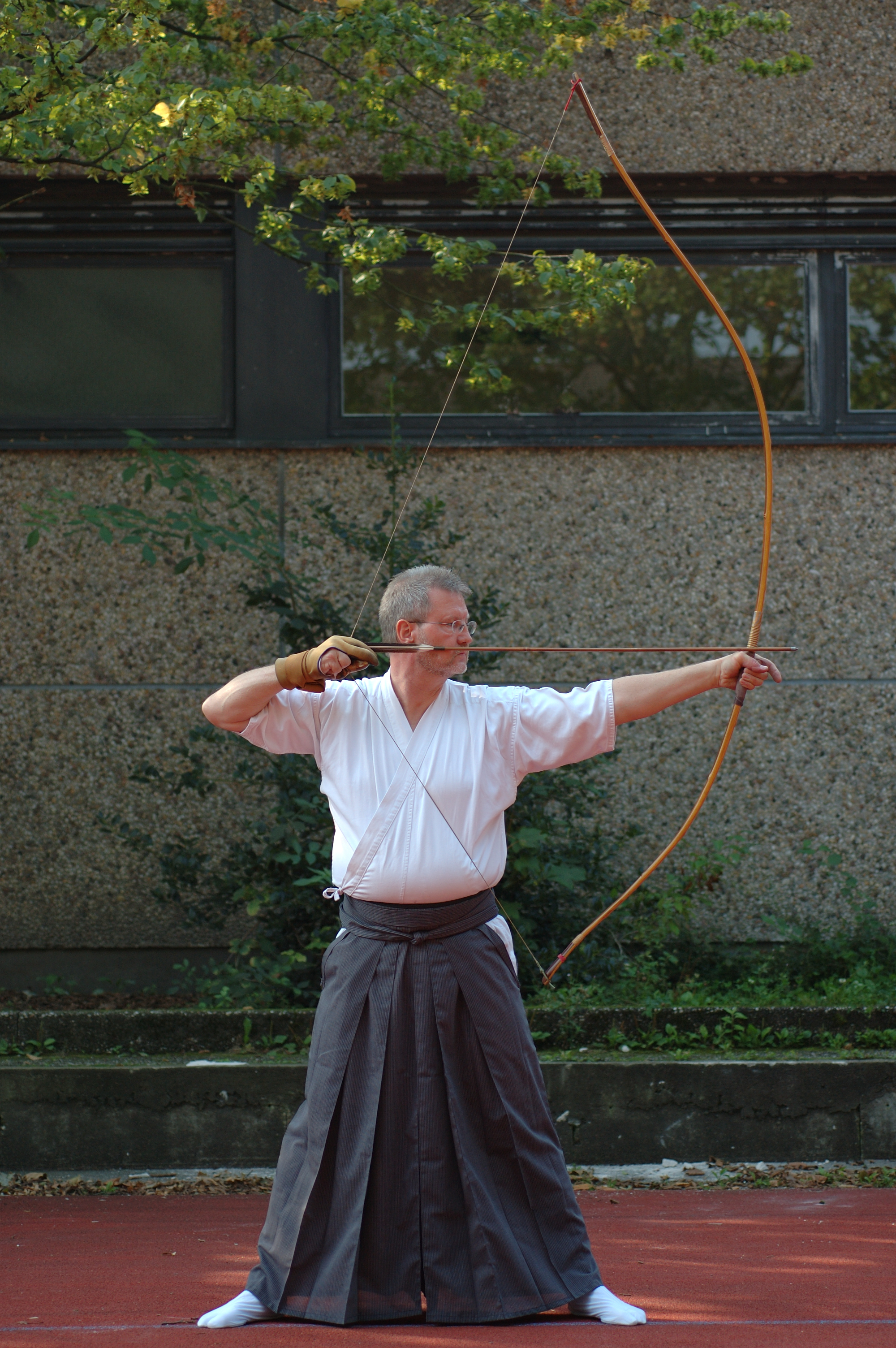 (Kyūdō)full draw/"Kai" performed by male 弓道 Kyudo 弓術 Kyujutsu